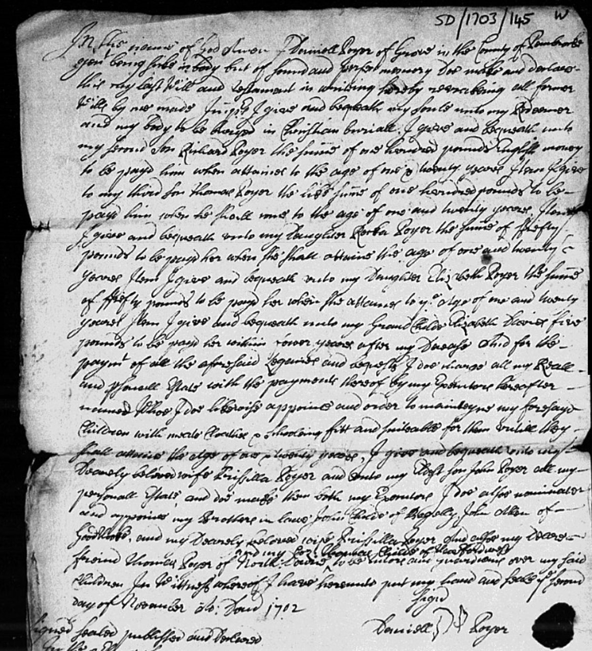 Will of Daniel Poyer who owned the Grove, Narberth, 1703